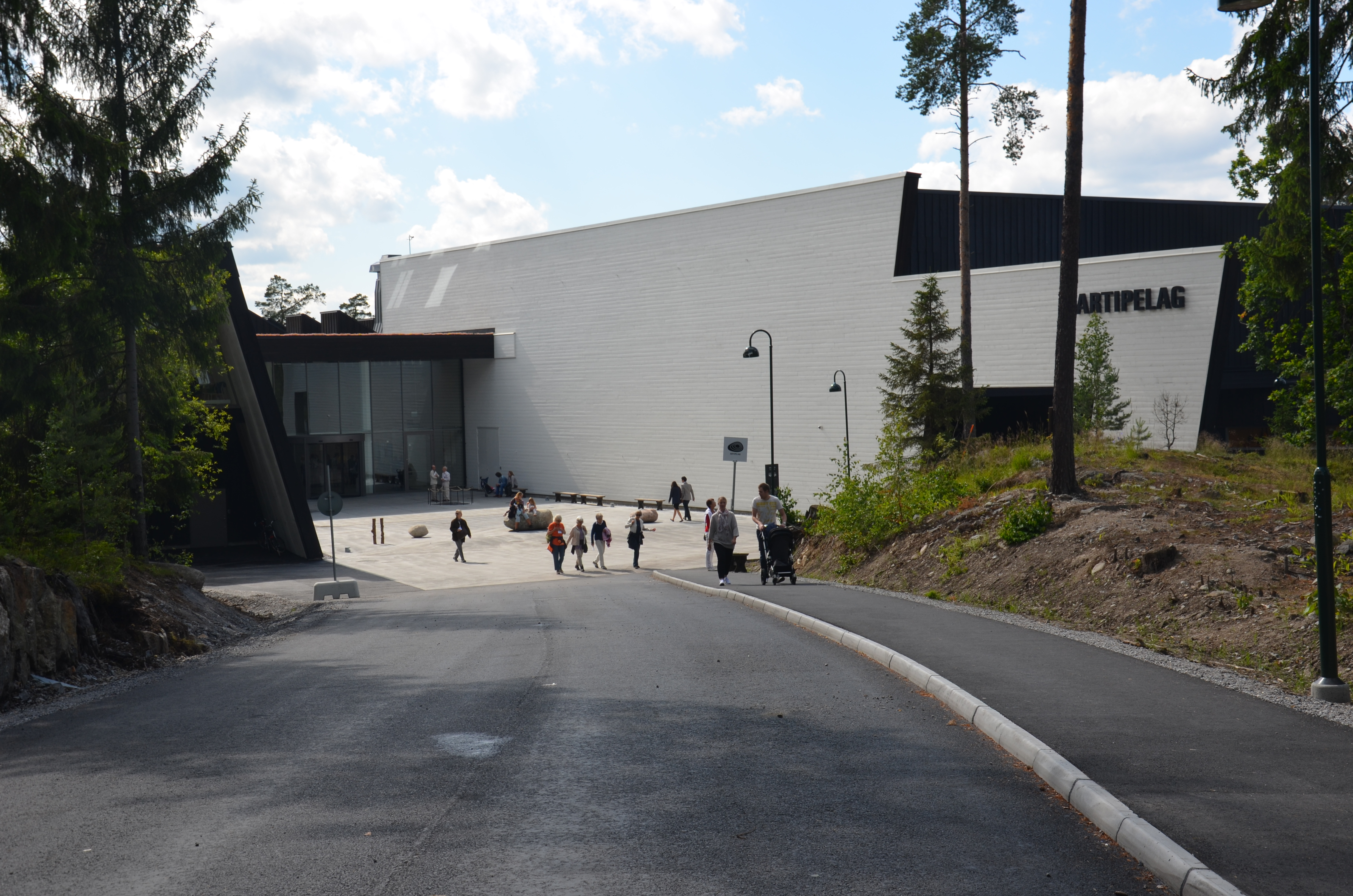 Entrance to Art Museum Artipelag, Gustavsberg, Sweden